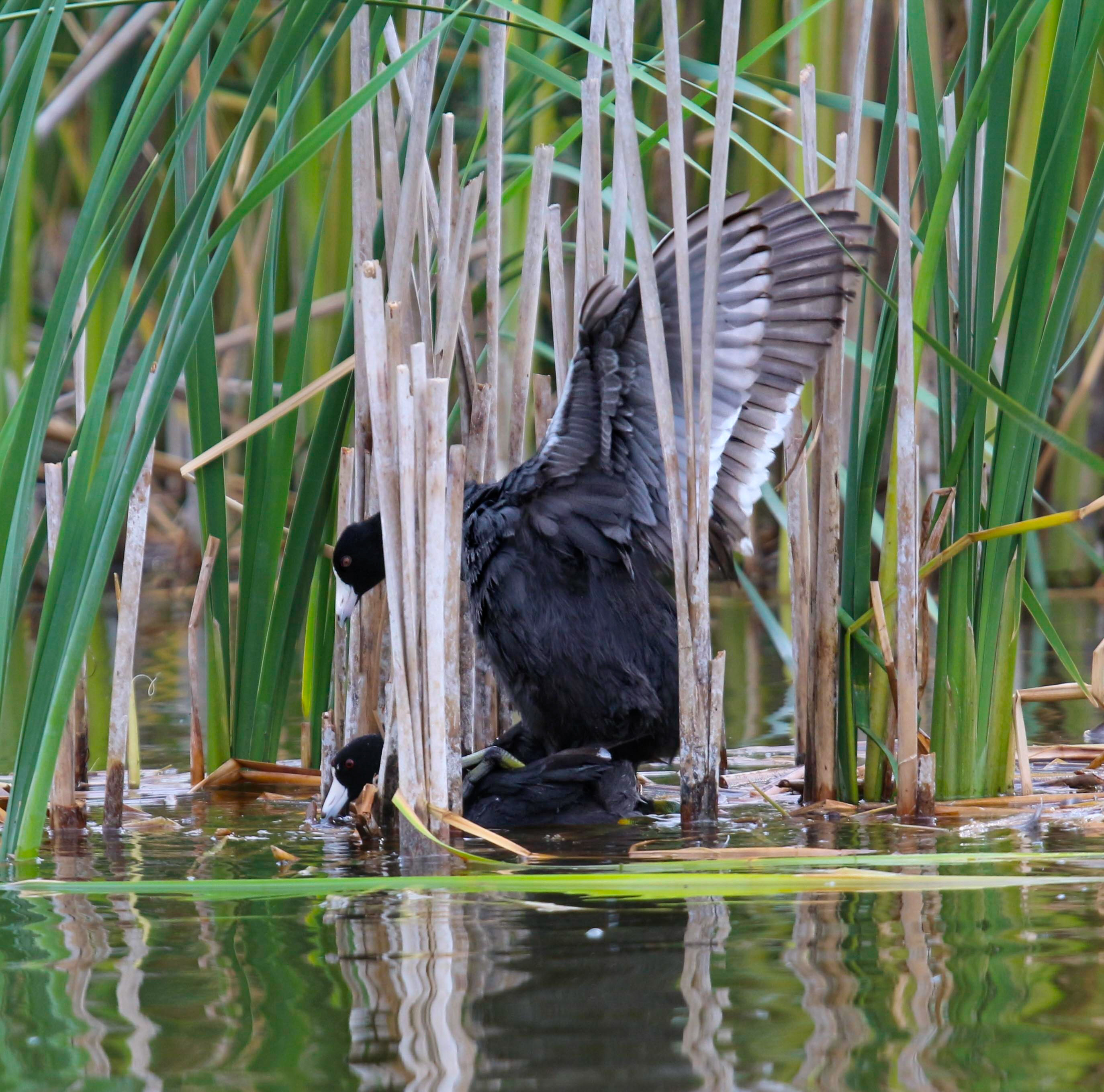 A pair of American coots (Fulica americana) mating on a small private lake in Ramah, CO.